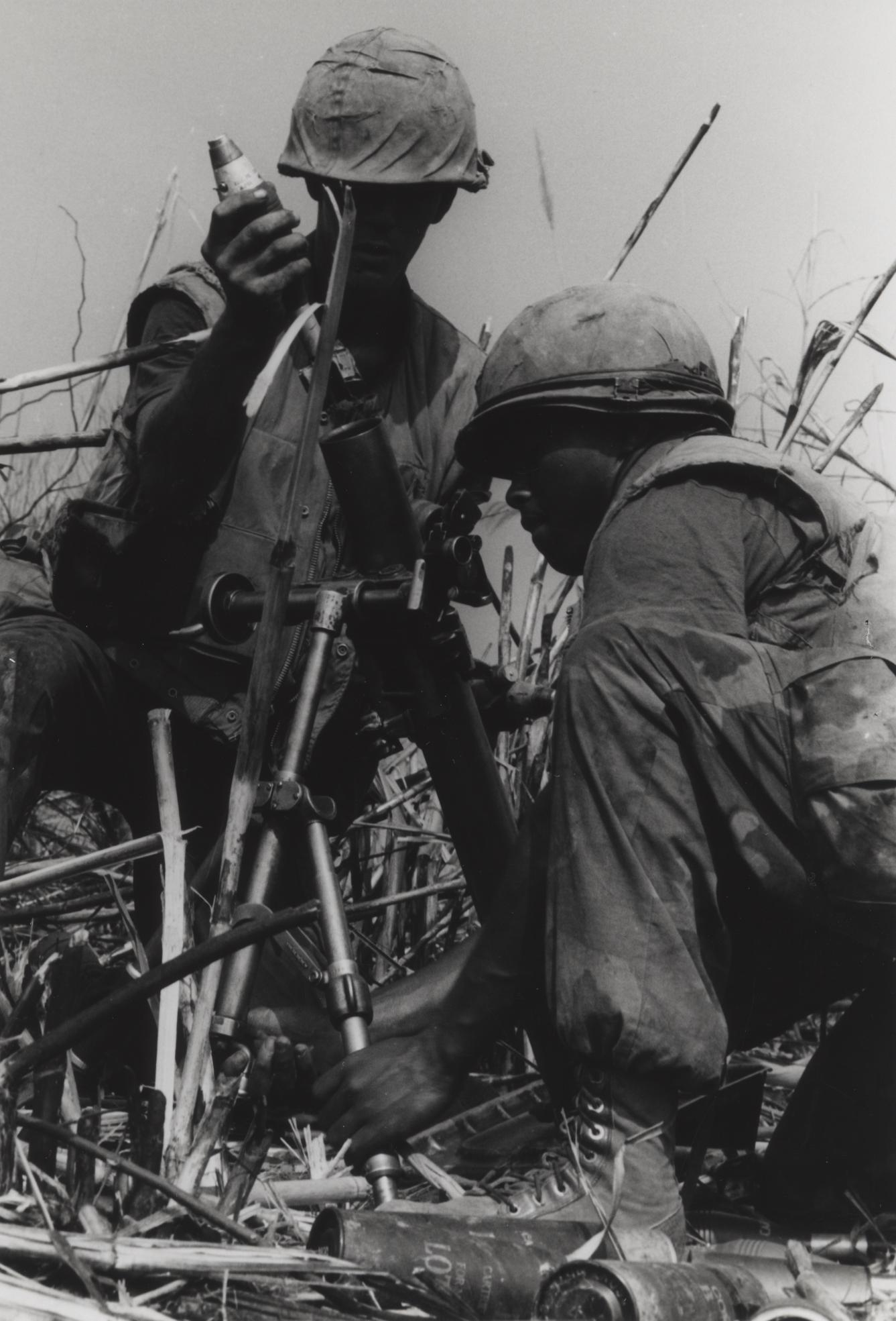 "Mortar Fire: Mortar men from 3d Battalion, 9th Marines prepare to send another 60mm mortar round against the enemy during Operation Dewey Canyon. Left to right are Lance Corporal James Hudgens (Baldwin, Missouri), and Corporal Albert L. Brown (Ridgeville, South Carolina). The 9th Marines, since the start of the operation January 22, has accounted for more than 1,100 NVA dead (official USMC photo by Corporal Robb Straub)." From the Jonathan F. Abel Collection (COLL/3611), Marine Corps Archives & Special Collections, Quantico, Virginia OFFICIAL USMC PHOTOGRAPH